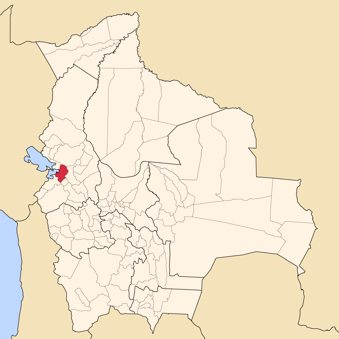 Map of Bolivia showing Los Andes province, La Paz